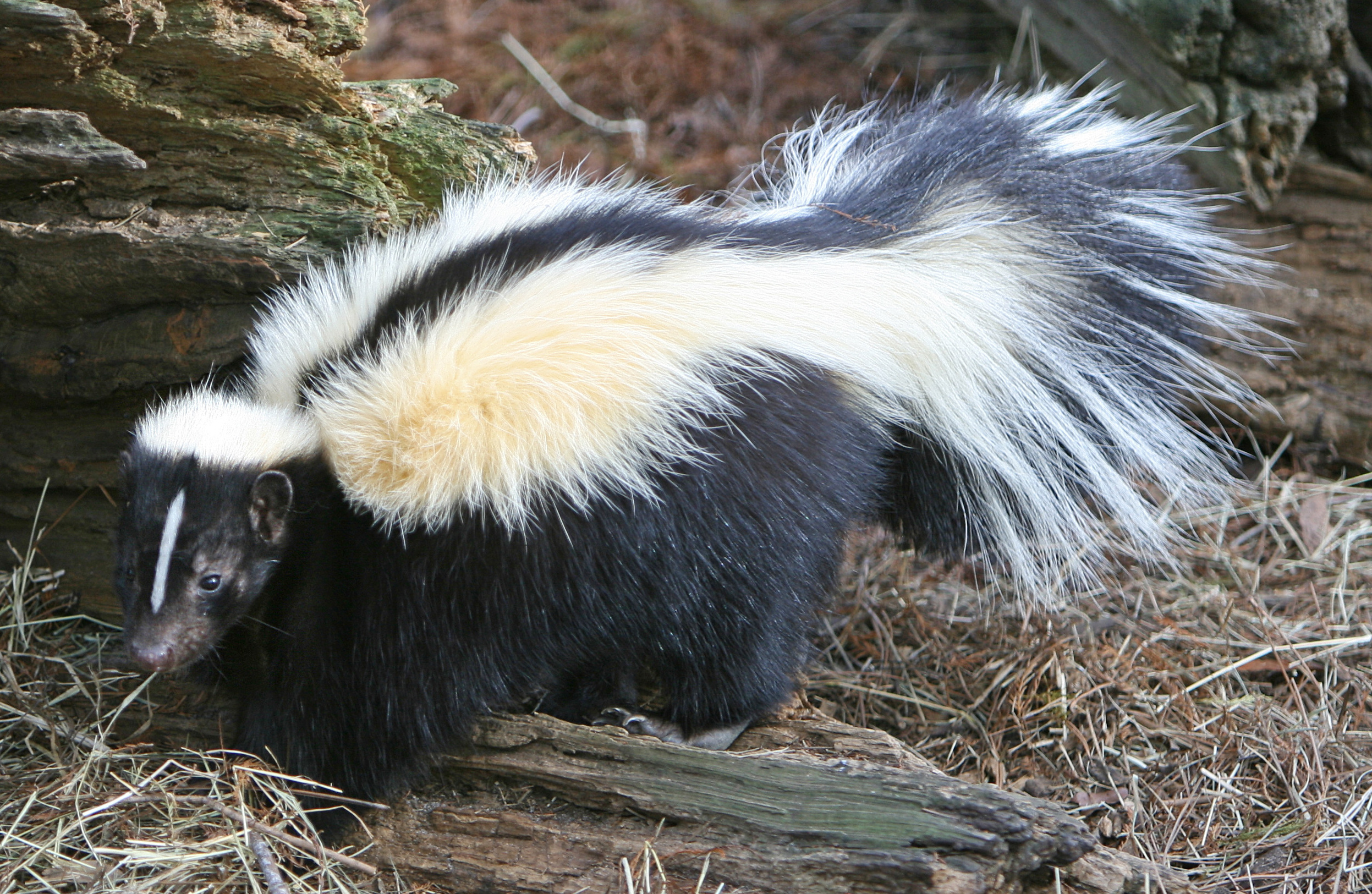 Striped Skunks (Mephitis mephitis)